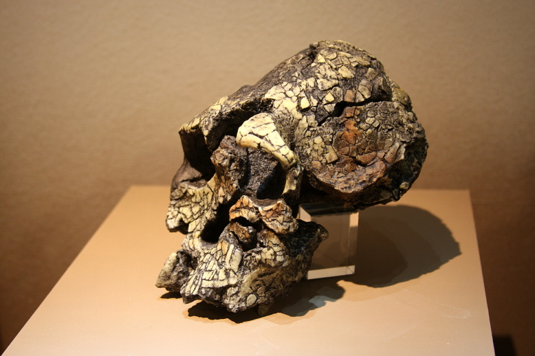 Found in Kenya, the fossil is approx. 3,5 mil years old. Its brain size is 350cm³. This is a model of the skull as on display in the Brno museum of evolution named "Anthropos".